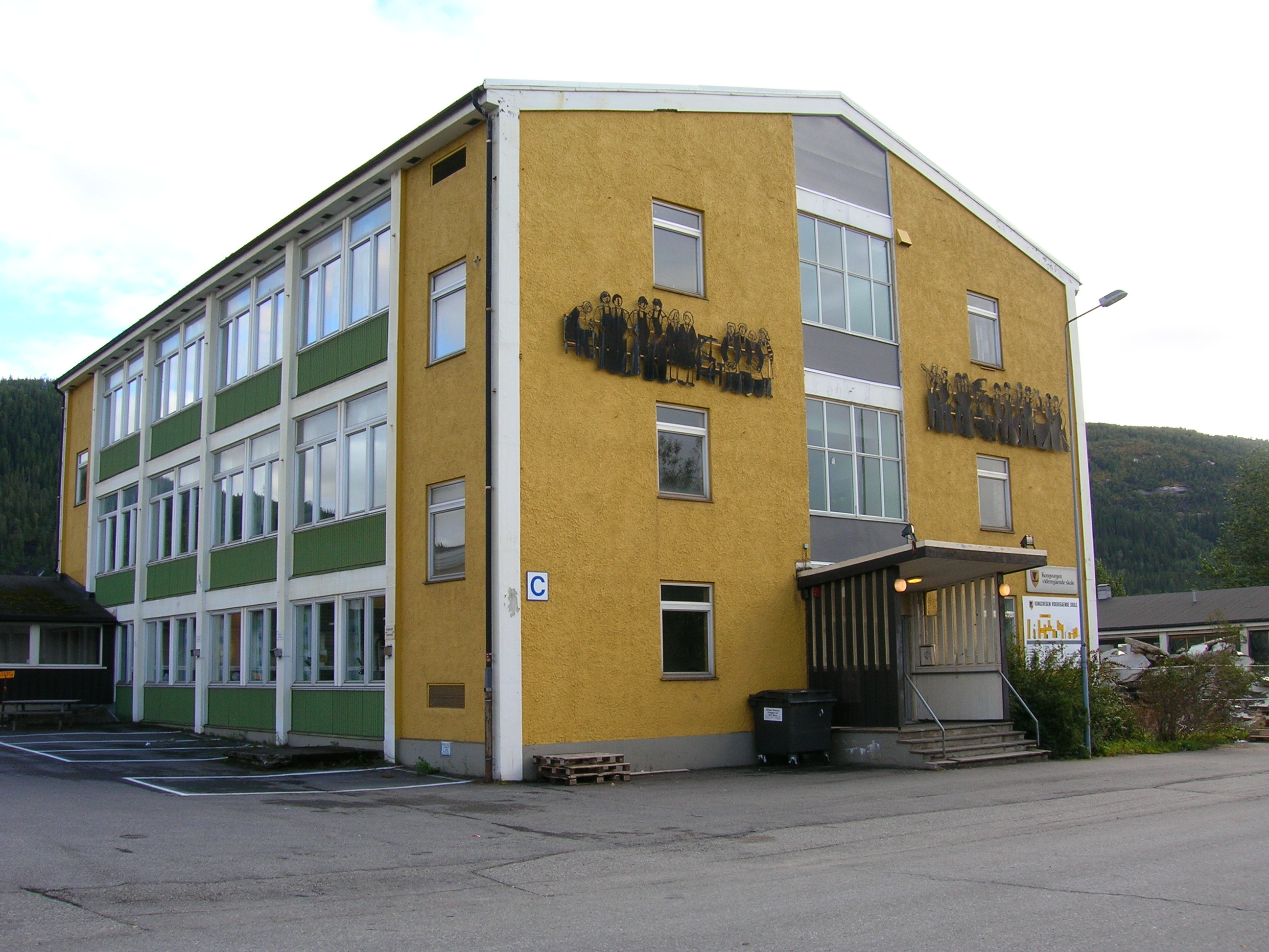 Kongsveien videregående skole in Mo i Rana, Rana municipality, Norway. Snapshot September 7, 2007 with a NIKON Coolpix 5600 5,1 Megapixel camera.